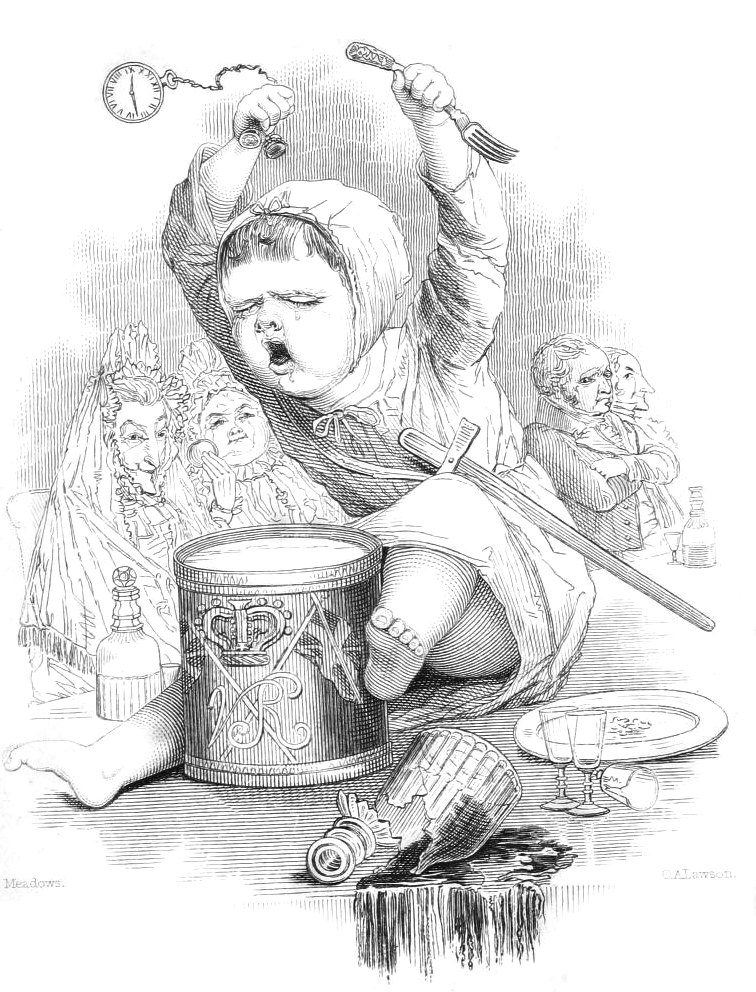 Spoiled child throwing a tantrum